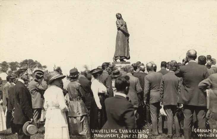 Unveiling Evangeline Monument (by sculptor Philippe Hébert) at the Grand-Pré National Historic Site in Nova Scotia, Canada.